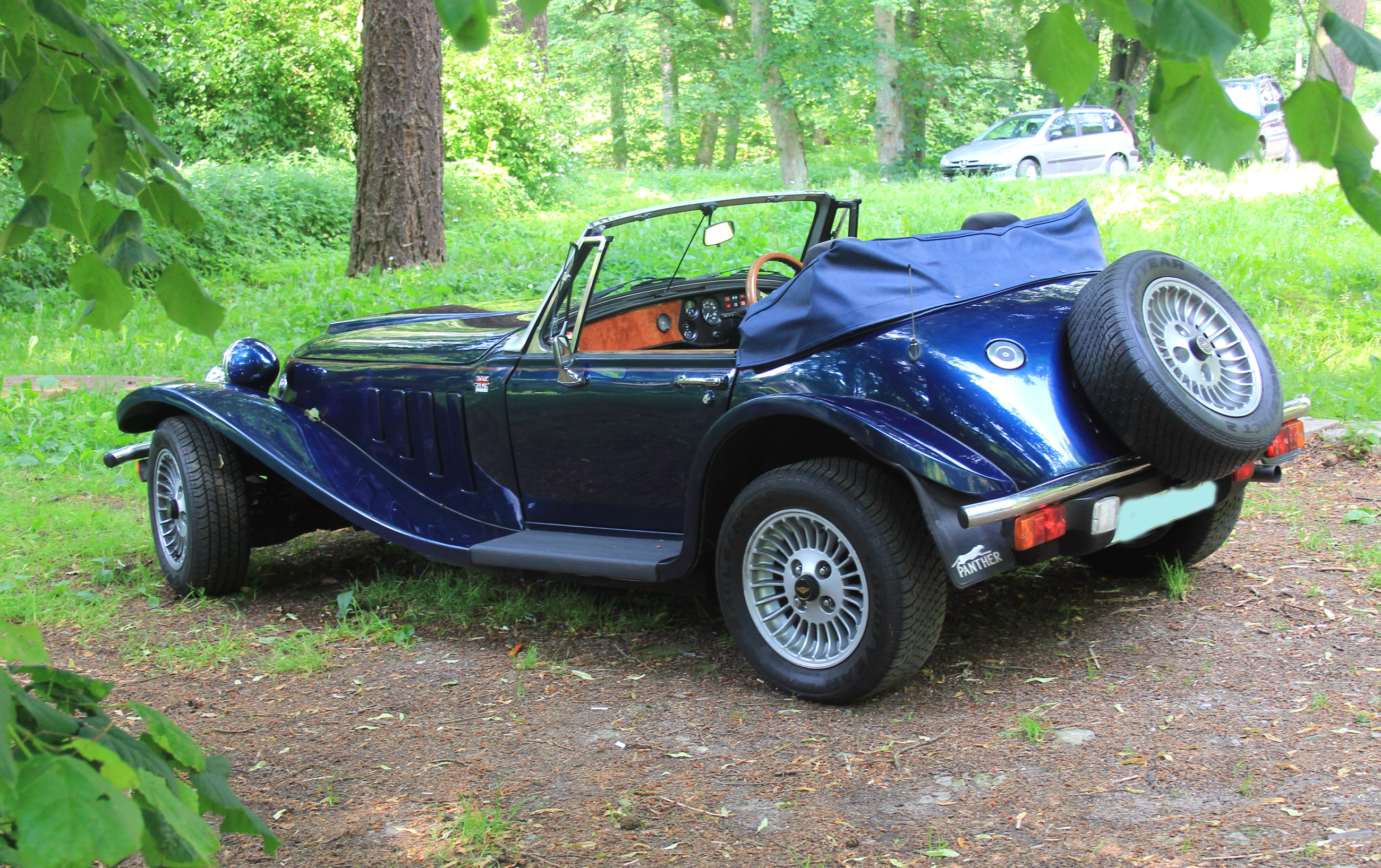 Car Panther Kallista in Czech Republic